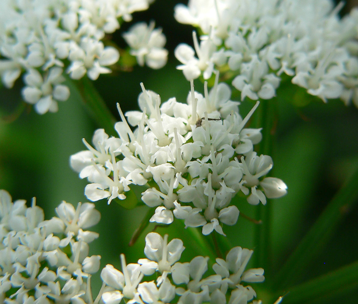 Berula erecta at Red Spring, Calico Basin, Spring Mountains, southern Nevada (elev. about 1100 m)